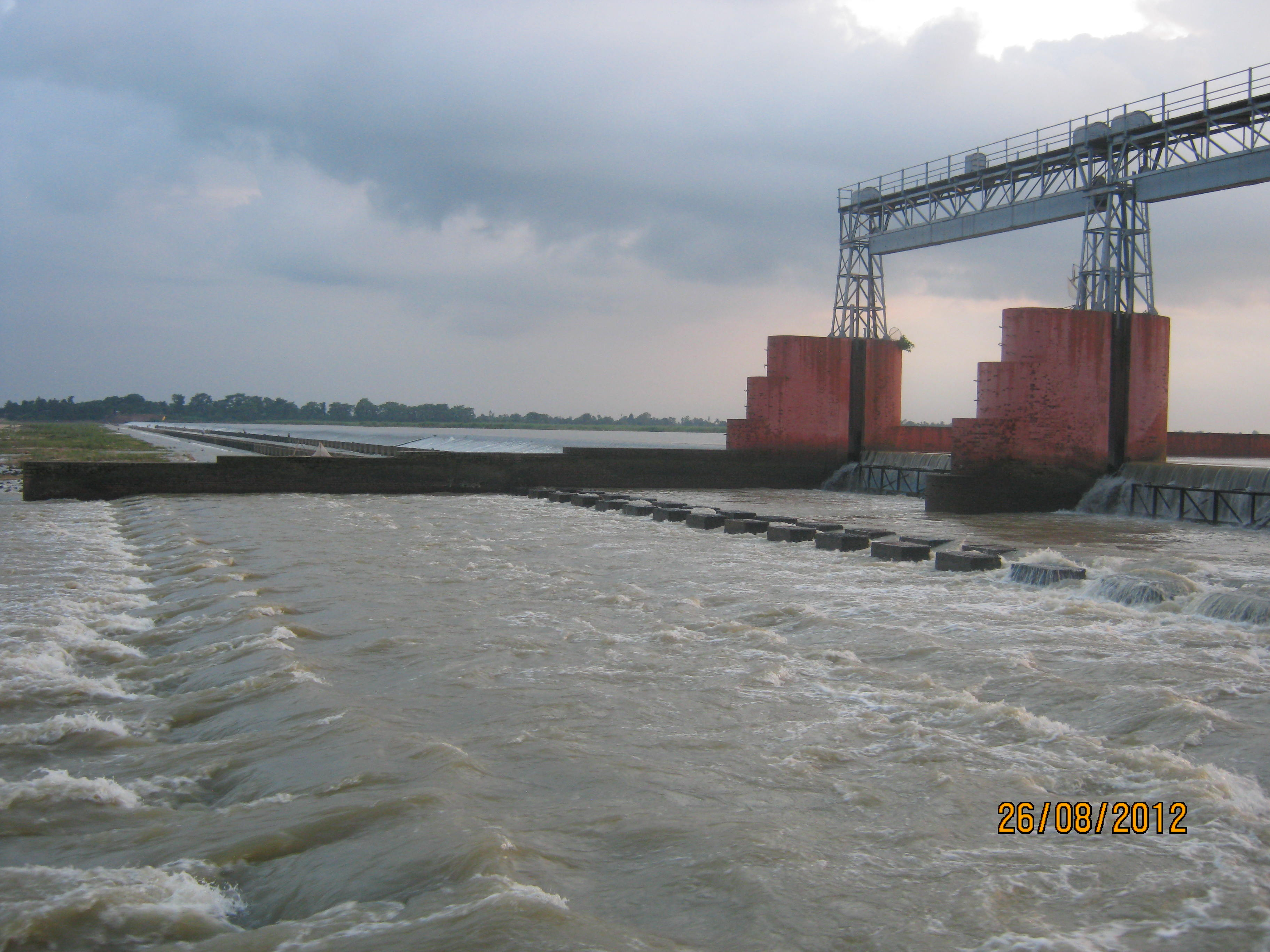 Rundiha weir on river Damodar